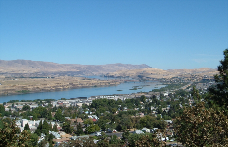 Photograph of The Dalles, Oregon, and the Columbia River from the Kelly Viewpoint overlooking the city. Taken by the uploader, John-Mark Gilhousen, with Fujifilm Finepix 3.2 megapixel digital camera; resized and cropped in Paintshop Pro 7, and saved in PNG format. (Text by User:Jgilhousen)